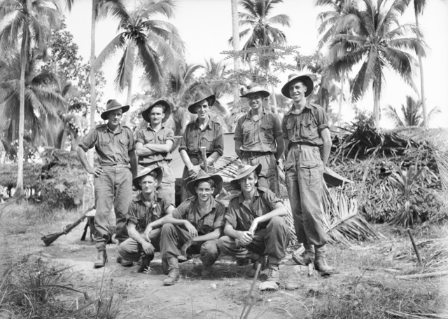 Soldiers from the Australian 2/7th Infantry Battalion, New Guinea, 17 August 1945